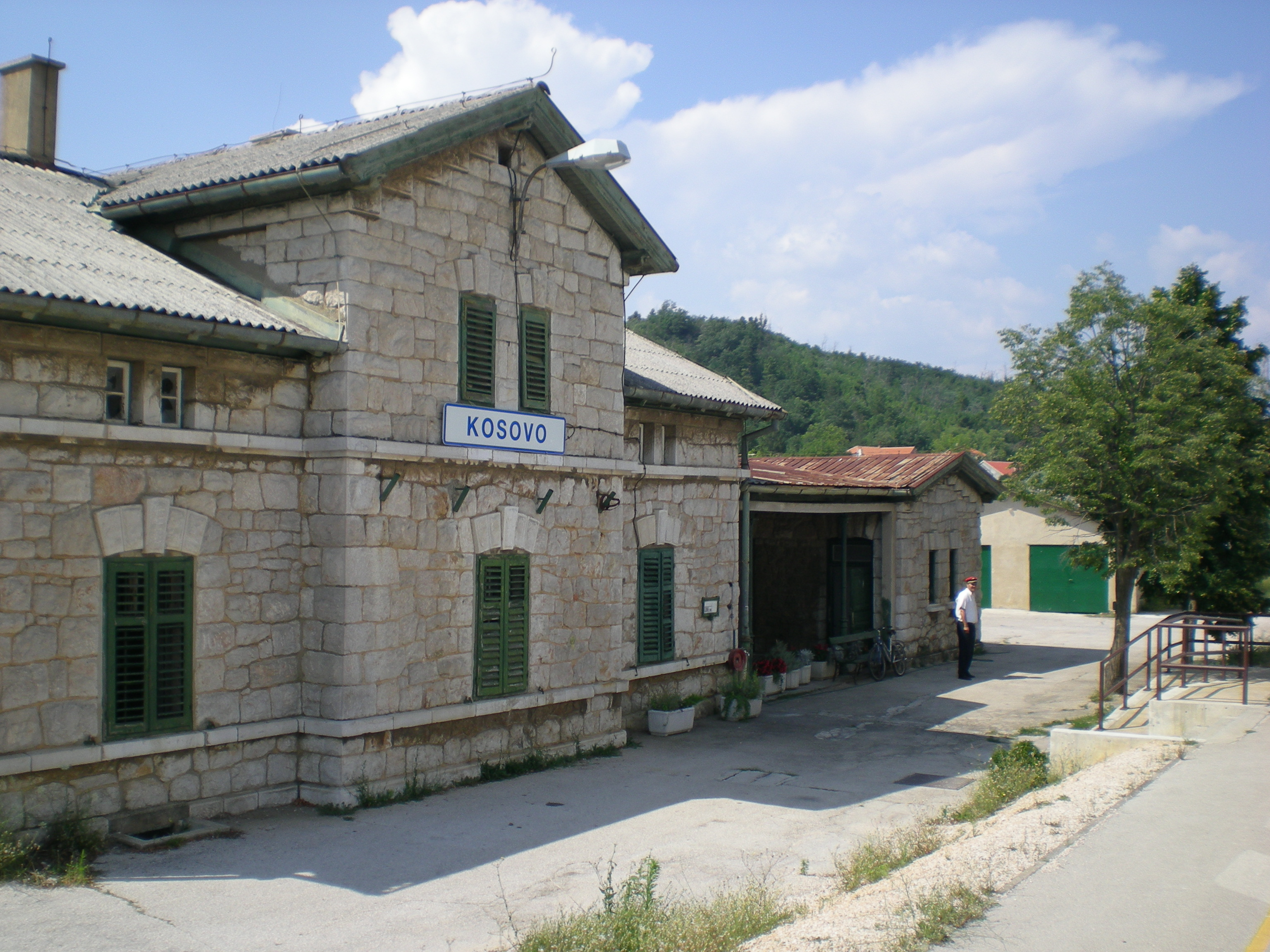 Railway station Kosovo between Zagreb and Spit.